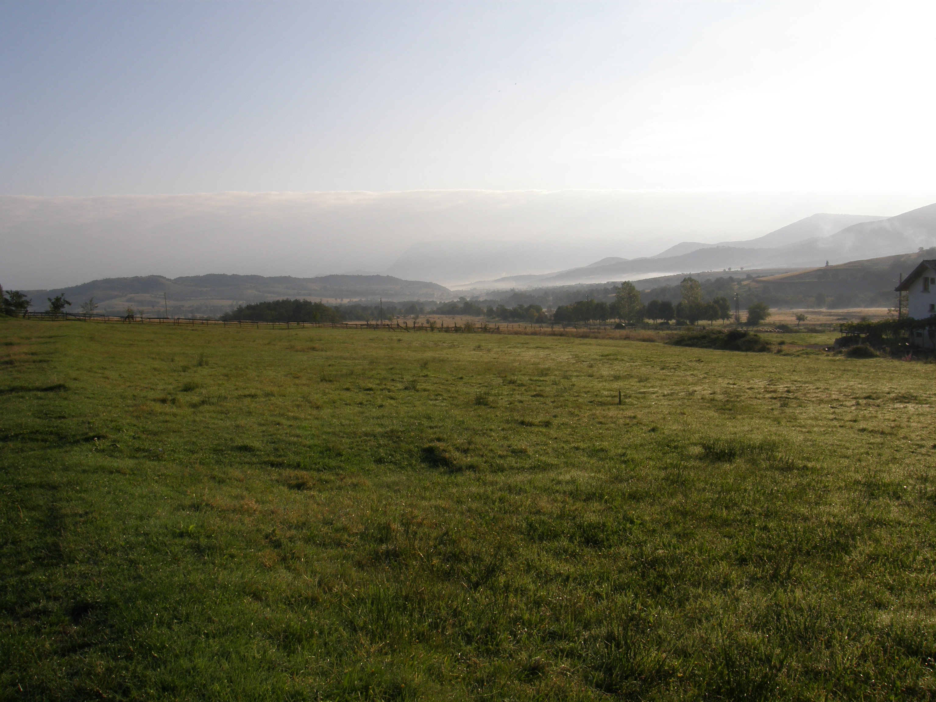 View from Spanchevcy village toward road for Vurshec(Bulgaria)